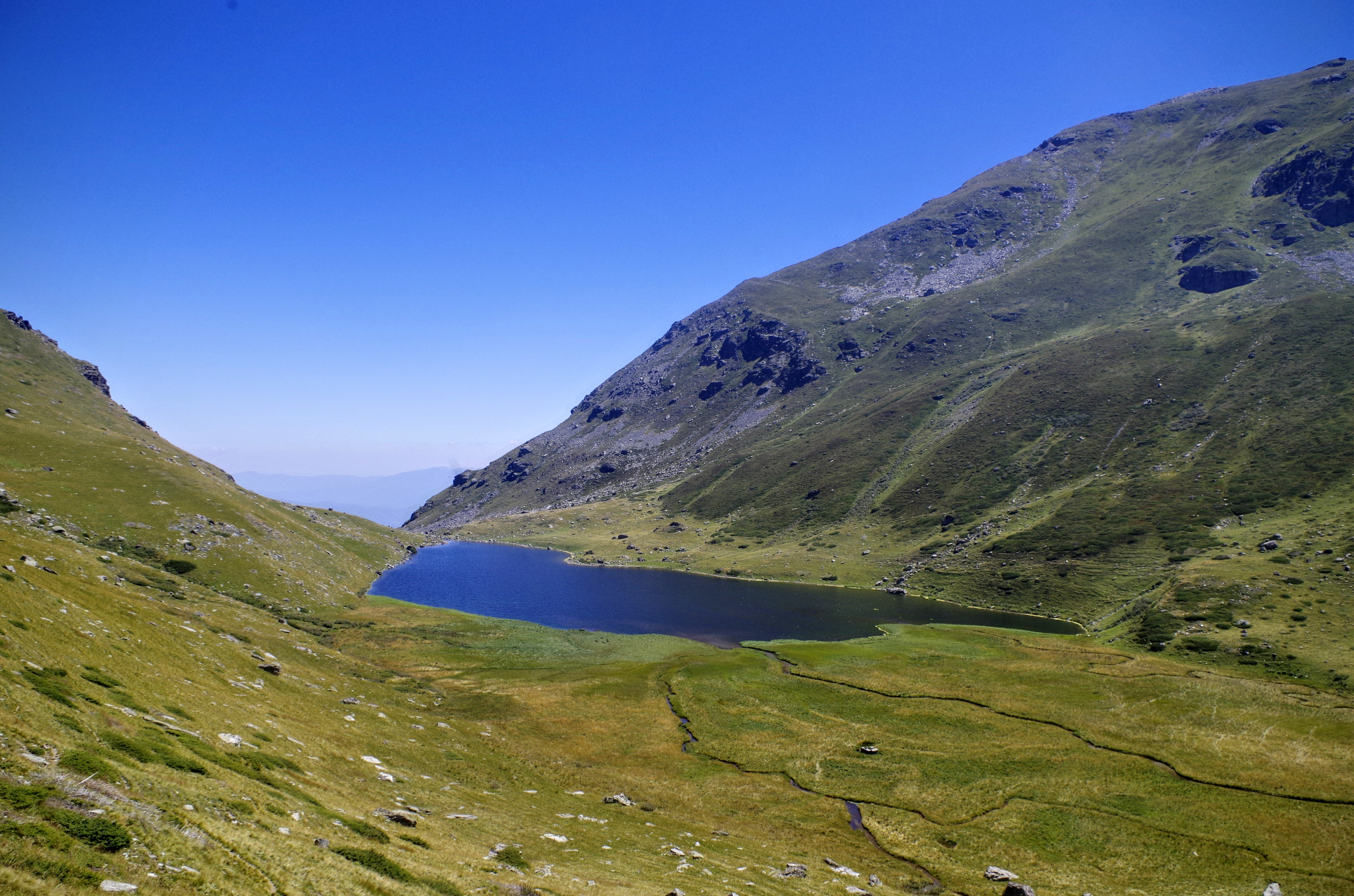 Bogovinje glacial lake on Shar Mountain, Macedonia